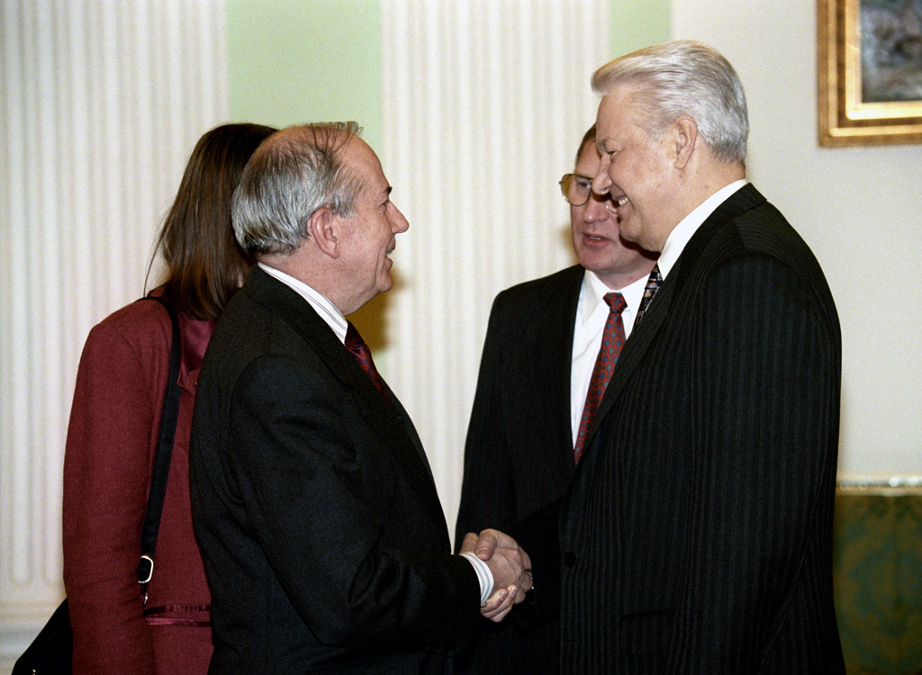 “Boris Yeltsin and Michel Camdessus”. Russian President Boris Yeltsin, right, meeting with IMF Managing Director Michel Camdessus at the Moscow Kremlin.